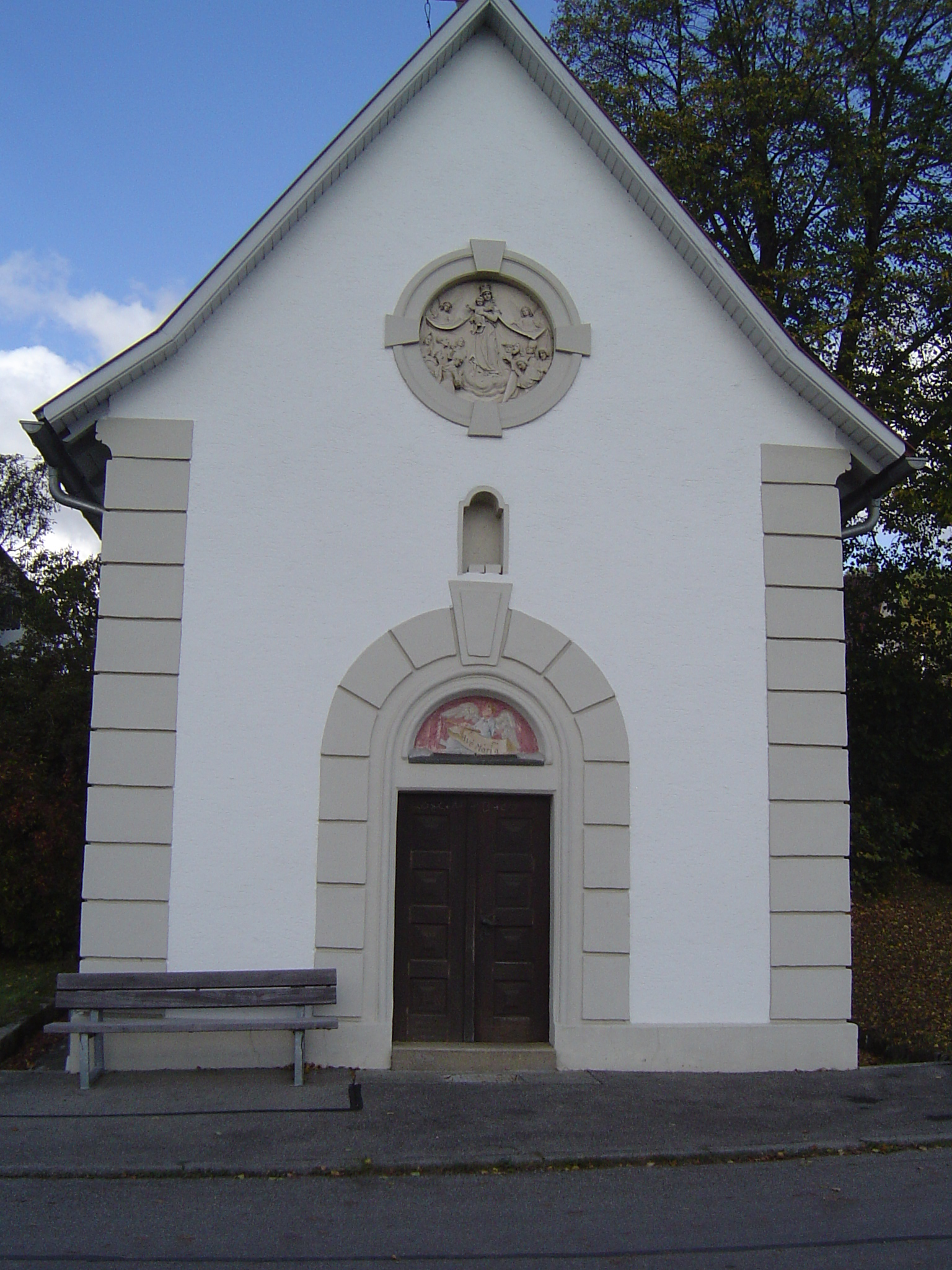 The chapel of Saint Anne.